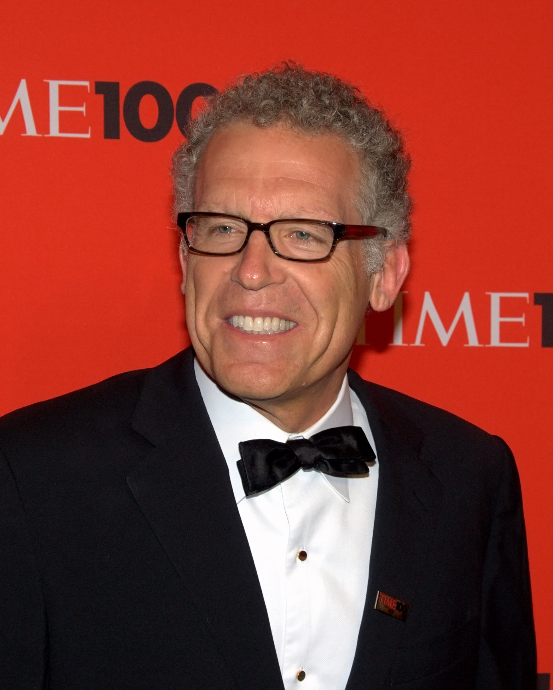 Carlton Cuse at the 2010 Time 100 Gala.